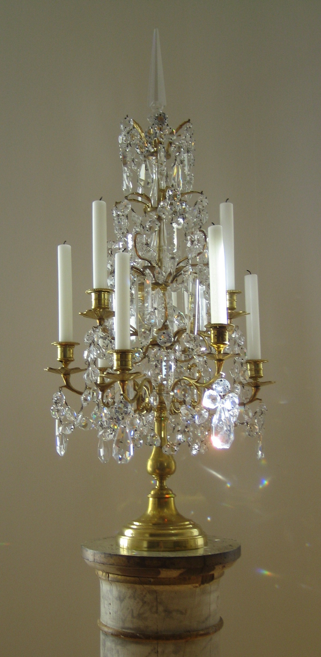 19th century French ormolu cut glass girandole. The cut glass on chandeliers and girandoles is cut in the style of a prism. This is why the white sunlight that shines on this girandole is split into the colours of a rainbow (lower right hand side). Height: 90cm, diameter: 40cm.